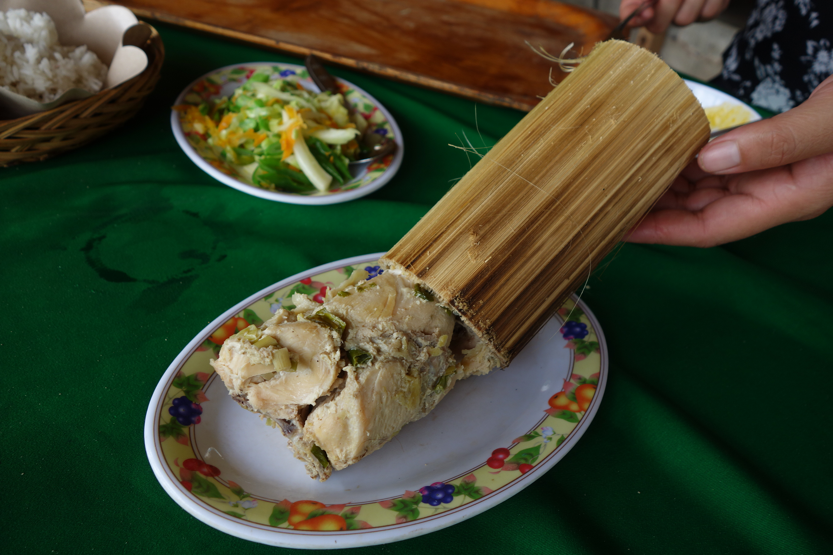 Chicken meat baked in a hollow bamboo pole ("pa-piyong"), a traditional meal of Toraja people (Indonesia, Central Sulawesi)